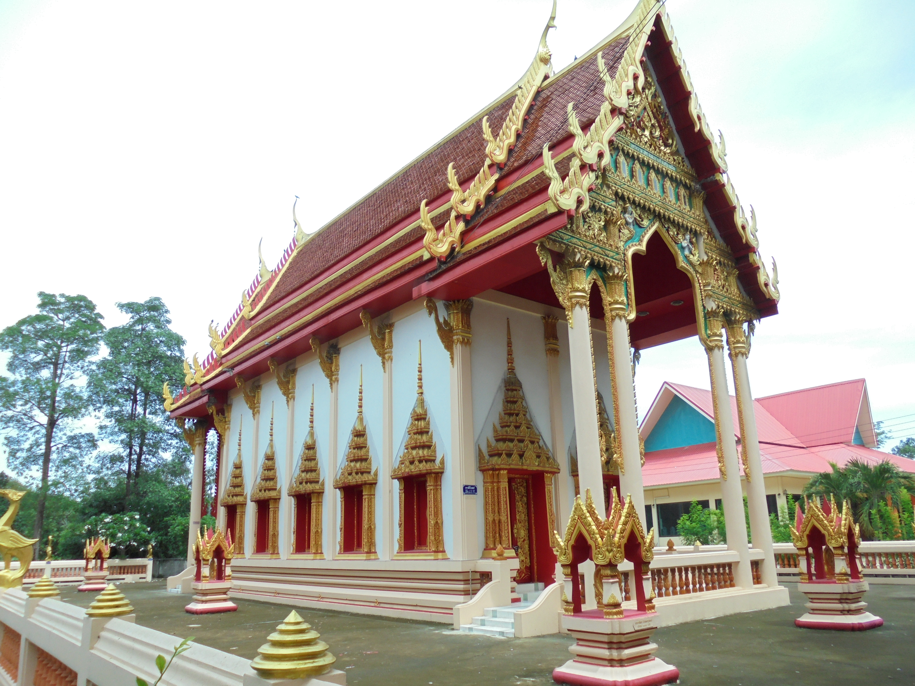 Ubosot of Wat Krommethan in subdistrict Samo Khae, District Mueang Phitsanulok, Phitsanulok Province.